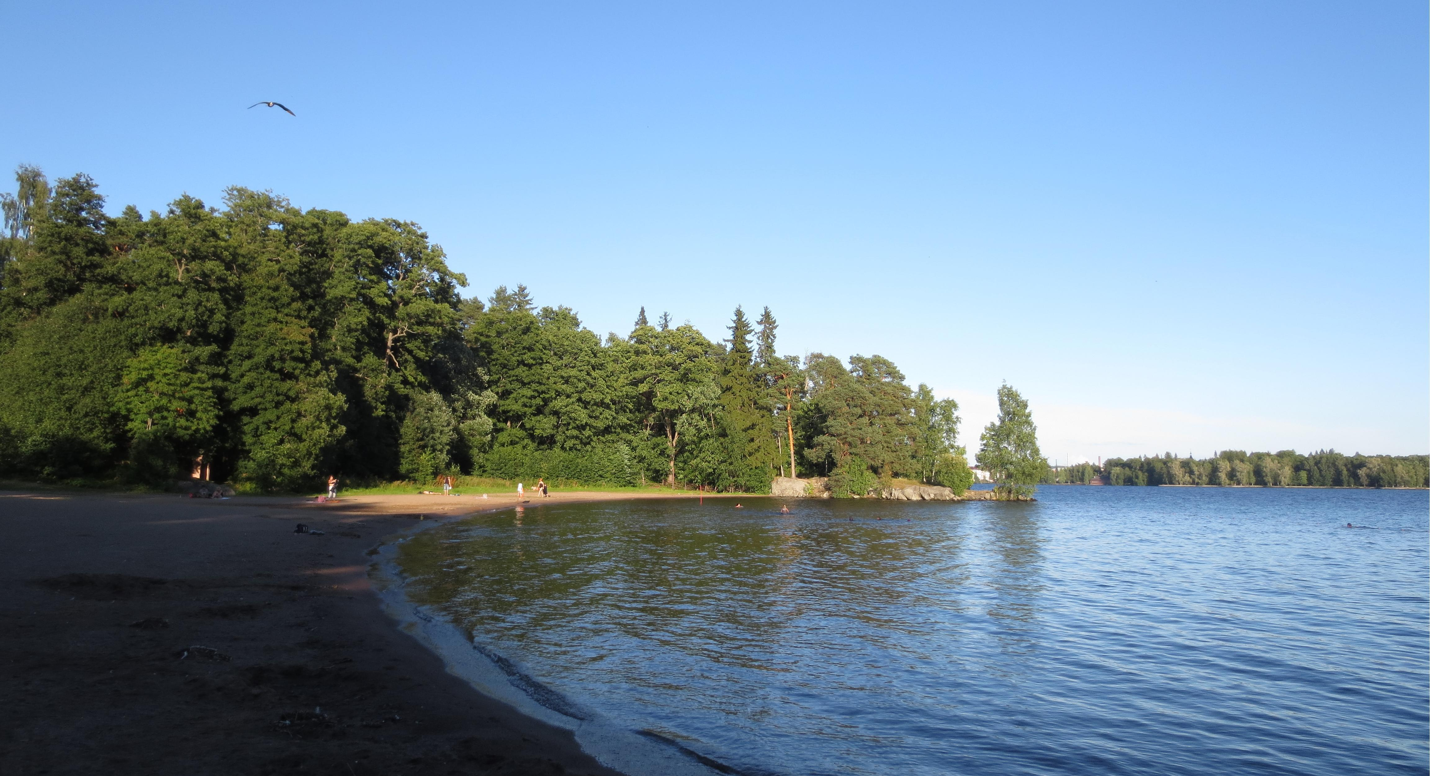 Pyynikkin beach